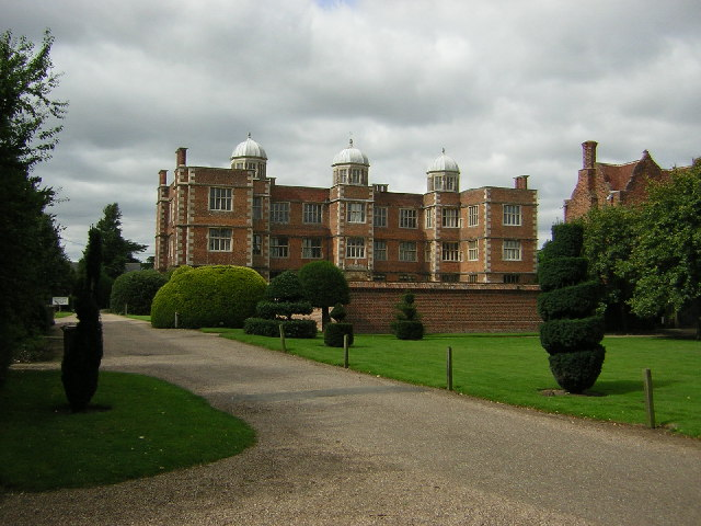 Doddington Hall. Elizabethan house of c1600, home to the Jarvis family since 1825.